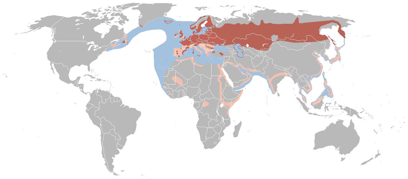 Black-headed Gull (Larus ridibundus) distribution map